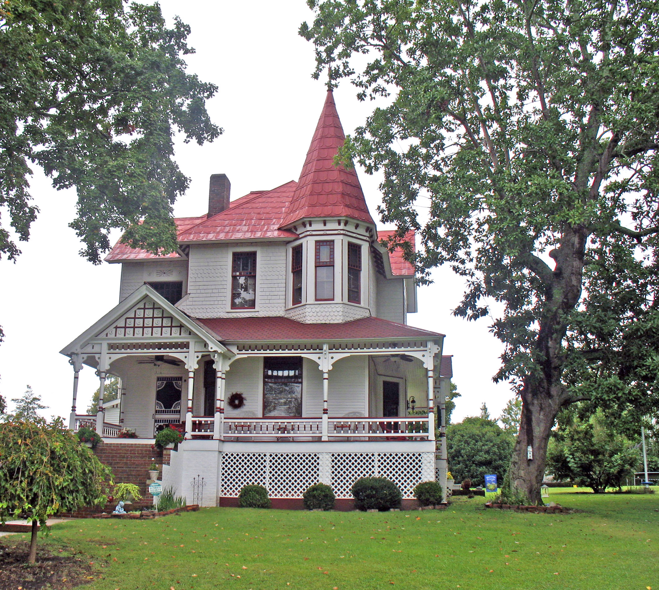 Bridgeport Historic District